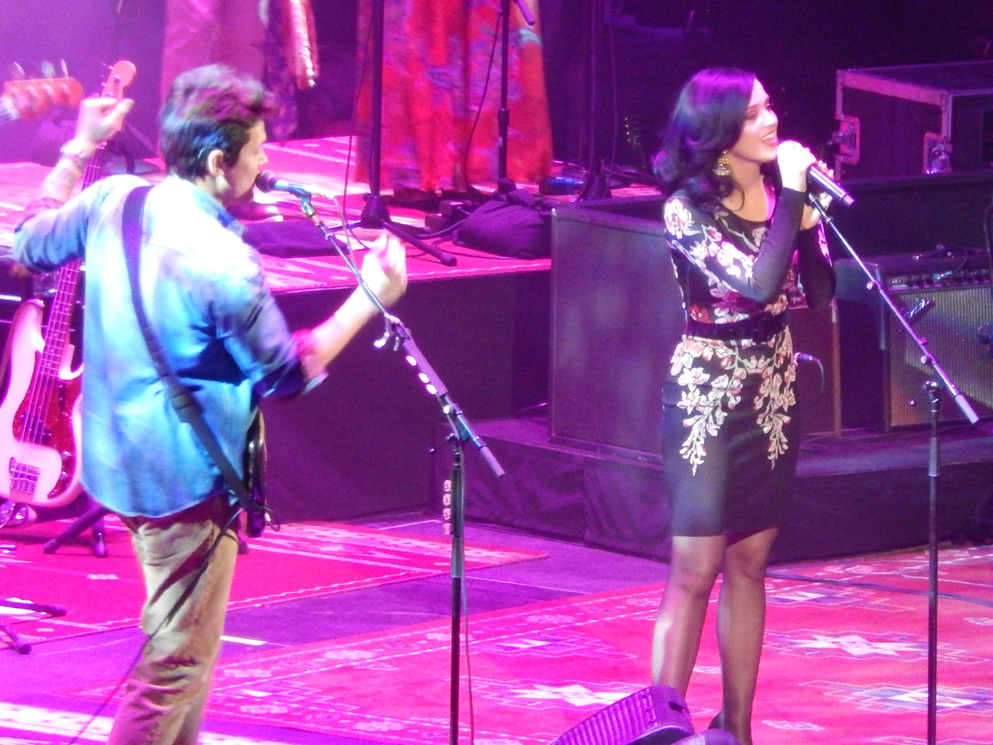 John Mayer and Katy Perry performing the song "Who You Love" at the Barclays Center in December 17, 2013.